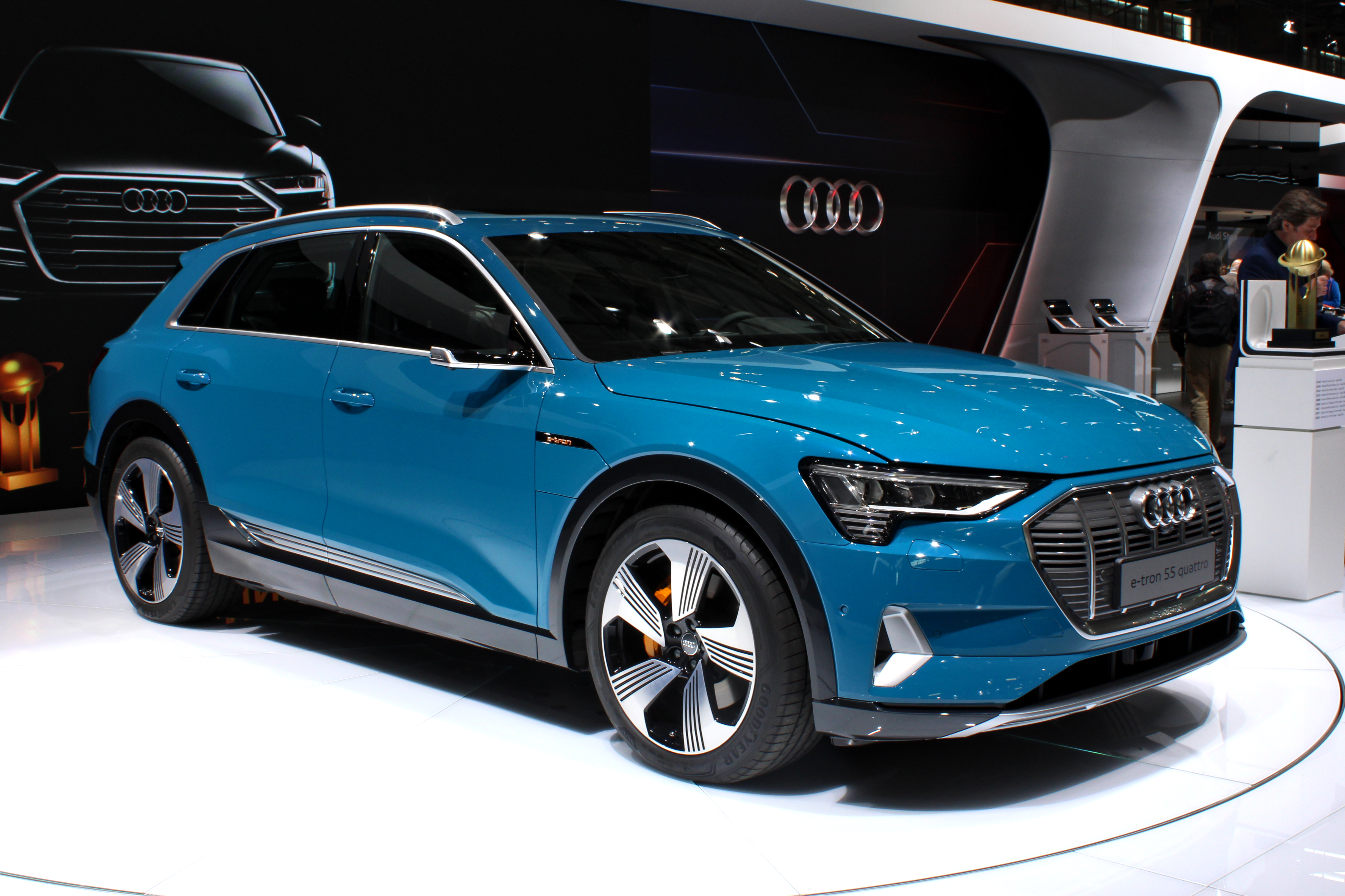 Audi e-tron at Paris Motor Show 2018